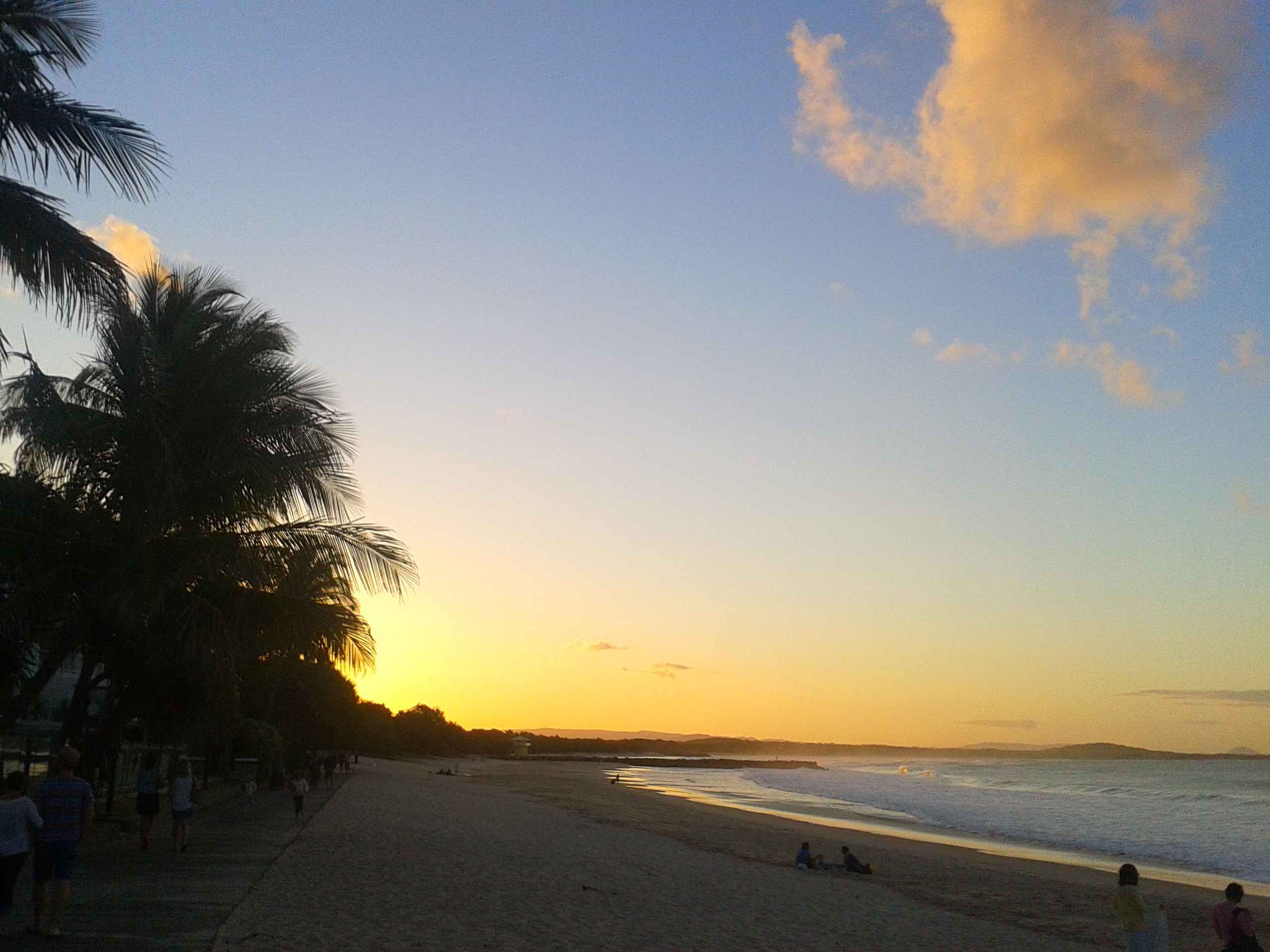 Noosa